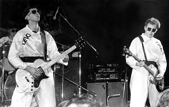 DEVO in Atlanta, Ga., USA on Dec. 27, 1978. Back left: Alan Meyers. Front, left to right: Guitarist Bob Casale and bassist Gerald Casale